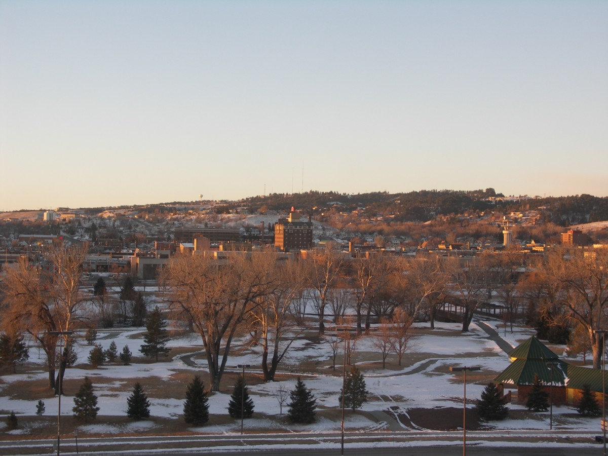 Downtown Rapid city between the Dakota Hogback and Memorial Park.